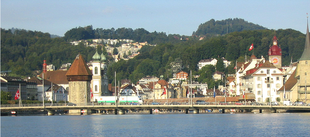 Lucerne, Switzerland, as viewed from nearby Lake Lucerne. The perspective is due west towards where the lake feeds into the Reuss River. Several bridges over the river are visible, including the famous KapellbrÃ¼cke.